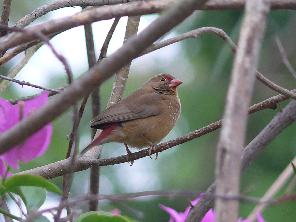 Female red-billed firefinch (Lagonosticta senegala) photographed in Kédougou, Senegal